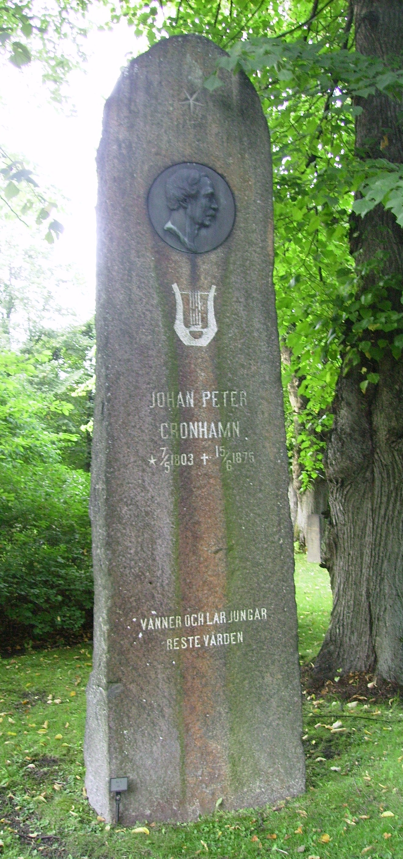 Picture of Johan Peter Cronhamn's grave at Norra begravningsplatsen in Solna